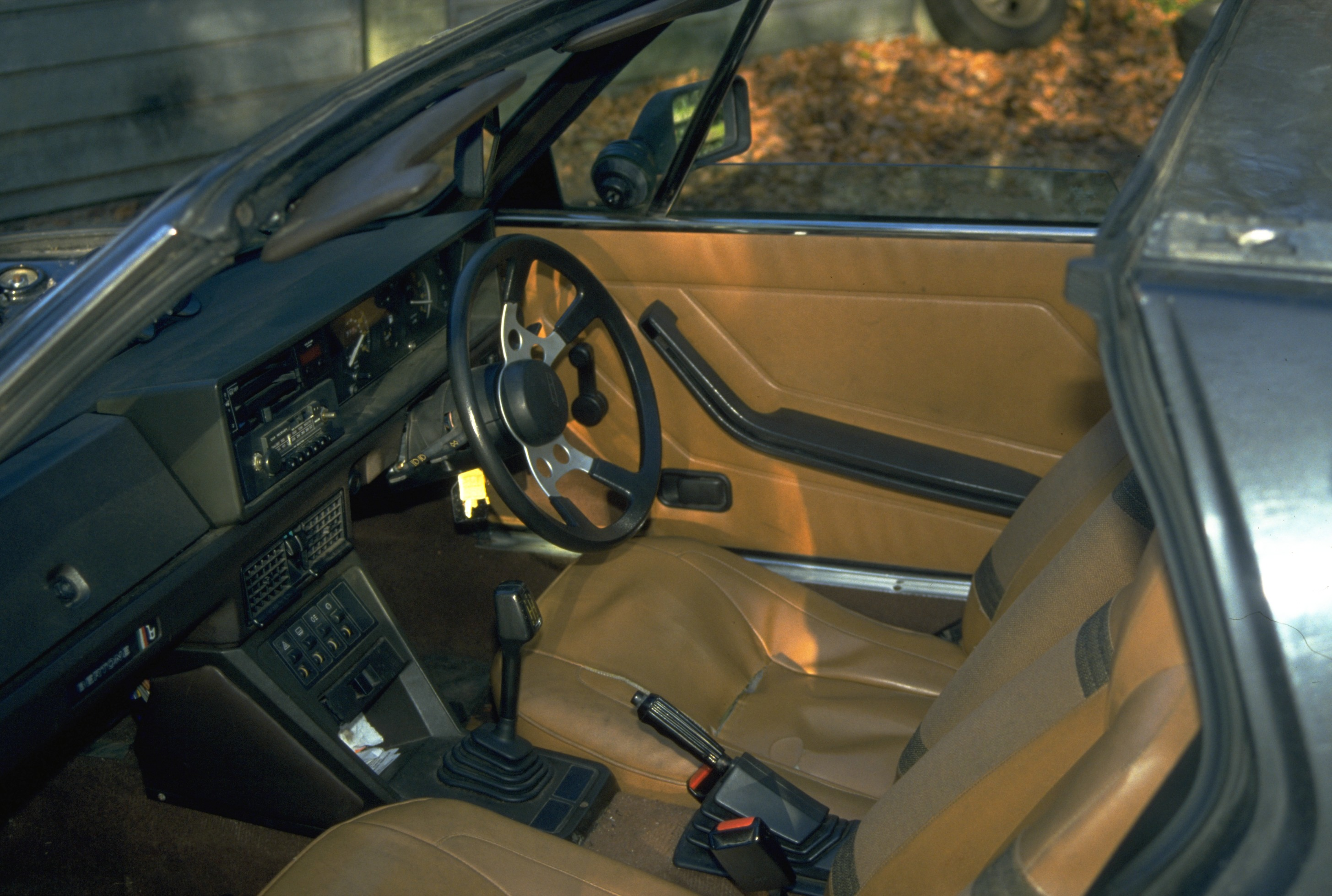 Interior of 1982 Fiat X1/9. After thirteen years the seats were a little worse for wear :).